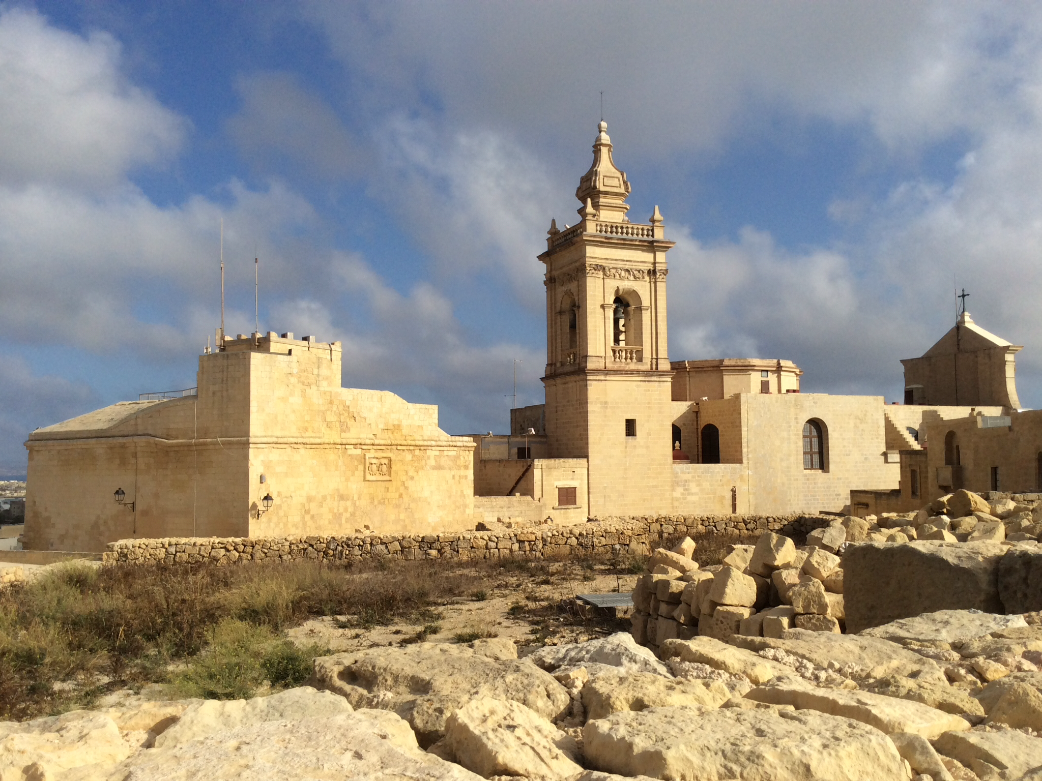 Cathedral of St.Mary This media is about Maltese cultural property with inventory number 00889.